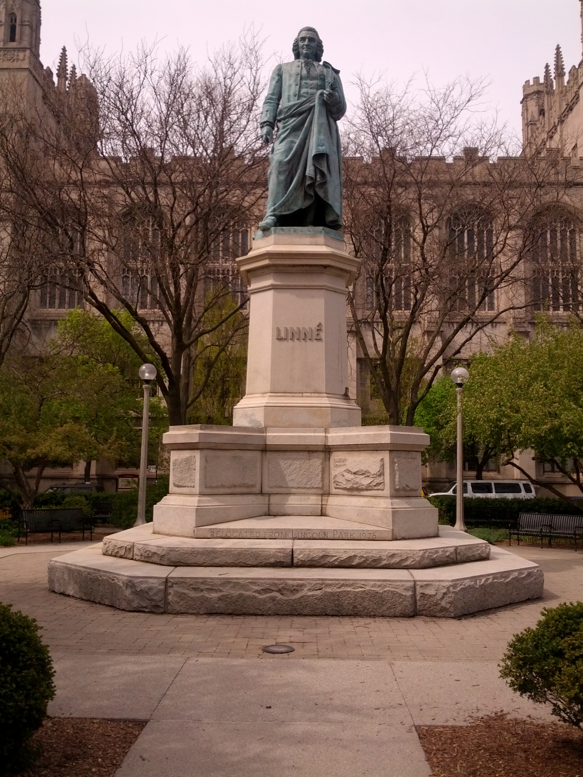 After Frithiof Kjellberg (Swedish, 1836-1885): Carl von Linné Monument, 1891, (copy of the original located in the Humlegarden in Stockholm), unveiled in Lincoln Park on May 23, 1891, anniversary of Linné's birth, moved to Midway Plaisance (South of E. 59th Street between S. Ellis Avenue and S. University Avenue) in 1976.[1] Next to the Harper Memorial Library, University of Chicago, Illinois, United States.